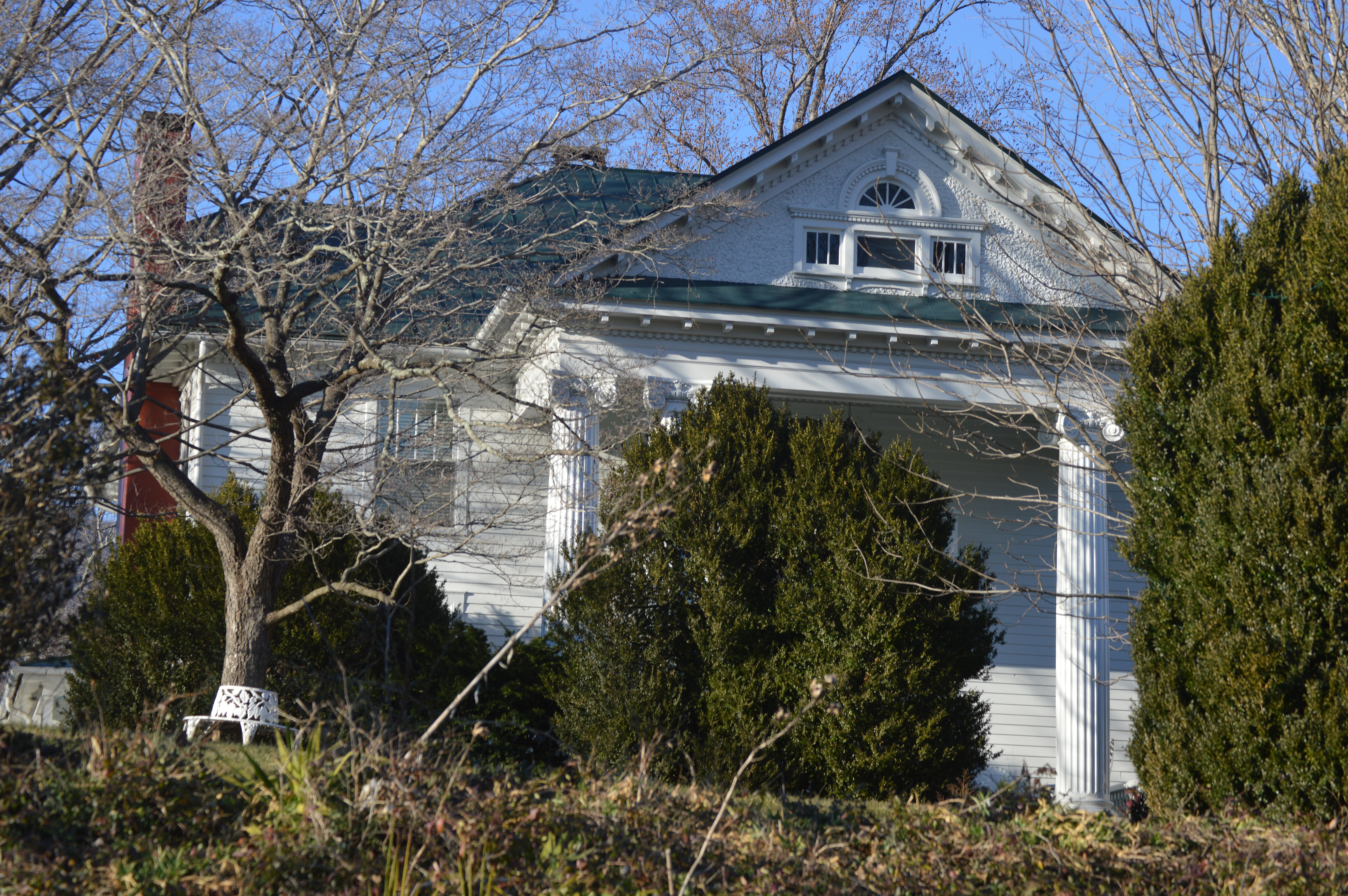 Front of the Elk Hill farmhouse, located at 511 State Route 151 at Wintergreen in Nelson County, Virginia, United States. Built in 1810, it is listed on the National Register of Historic Places, and it is part of a Register-listed historic district, the South Rockfish Valley Rural Historic District.